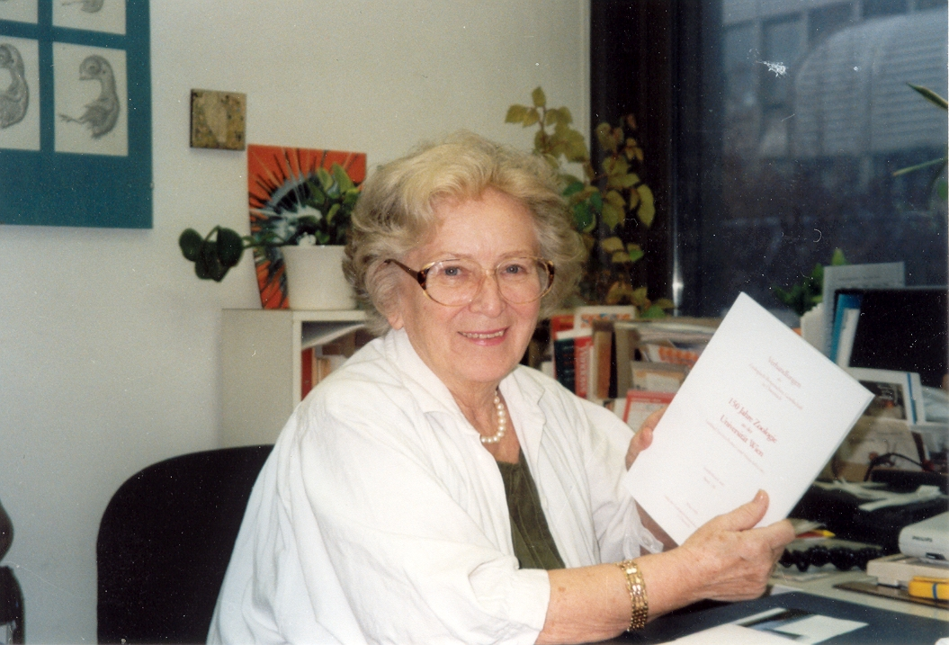 Maria Mizzaro, picture taken by her husband Mario Mizzaro in 1999. Uploaded 2006 with explicit consent of both.